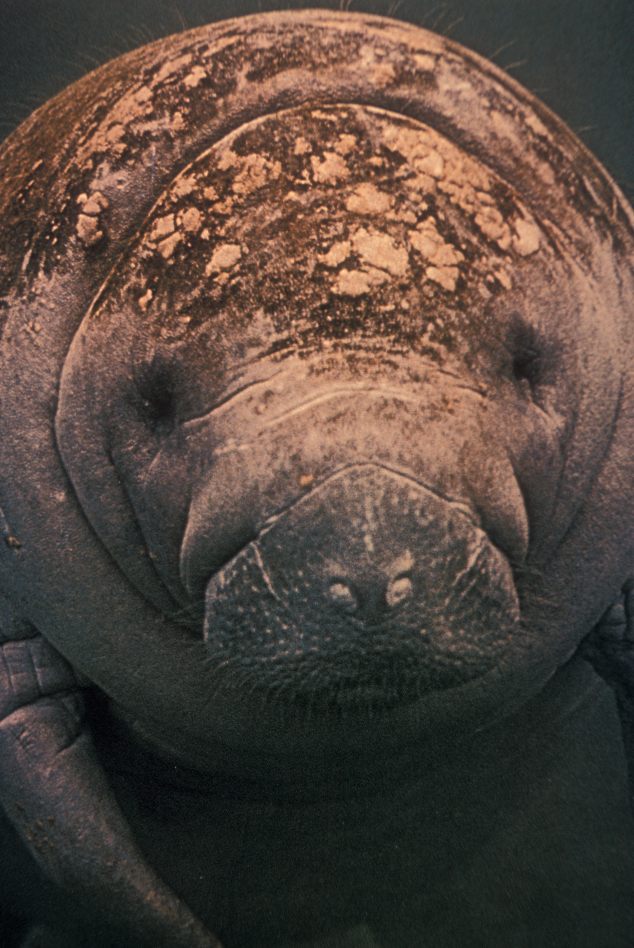 Manatee 1670 EVER, NPSPhoto, Nov 76